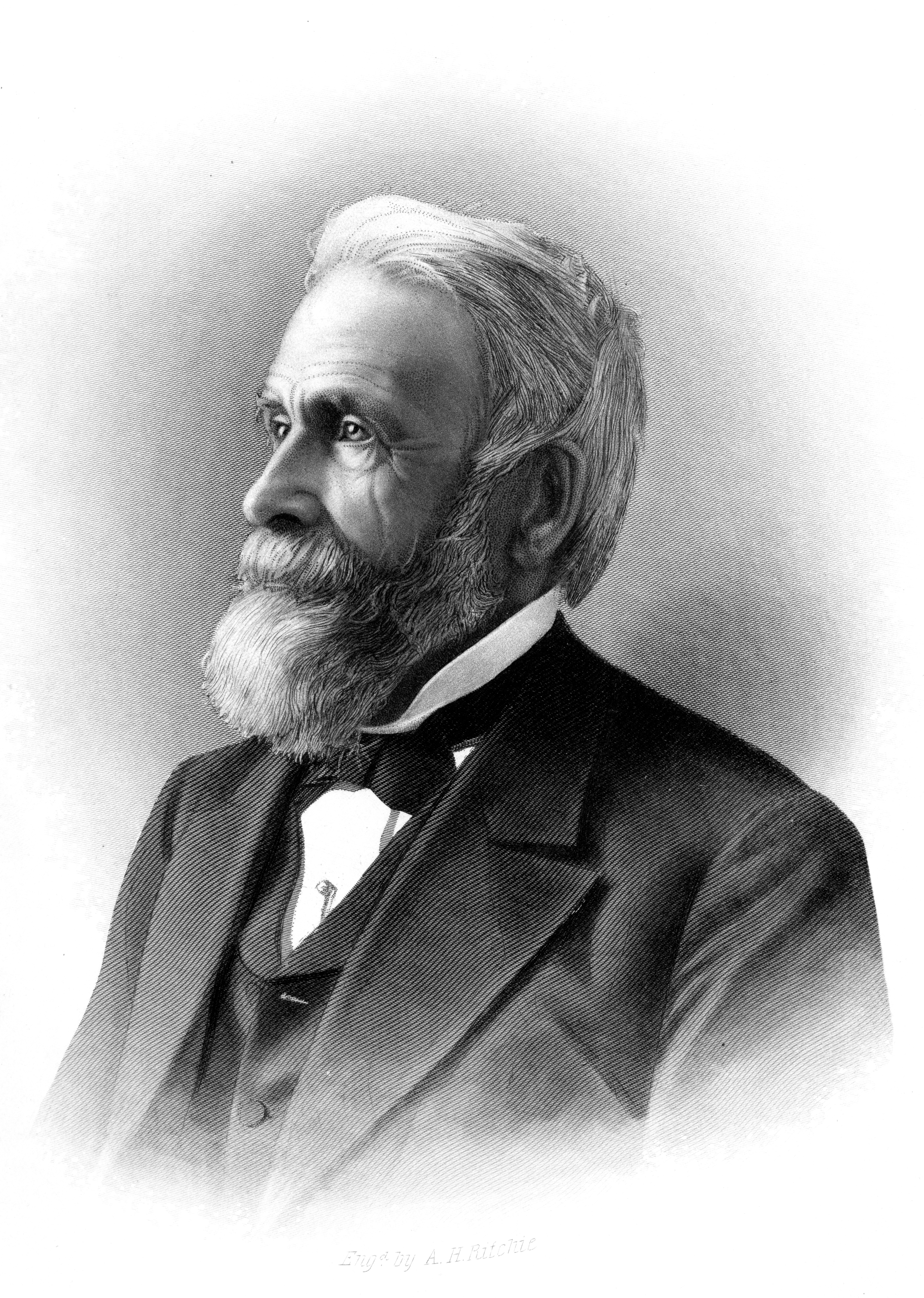 Inventor Loring Coes. Source: The New England States, their Constitutional, Judicial, Educational, Commercial, Professional, and Industrial History, by William T. Davies (1897)